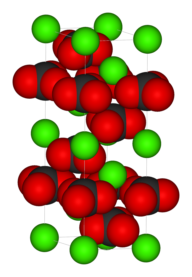 Calcite unit cell 3D